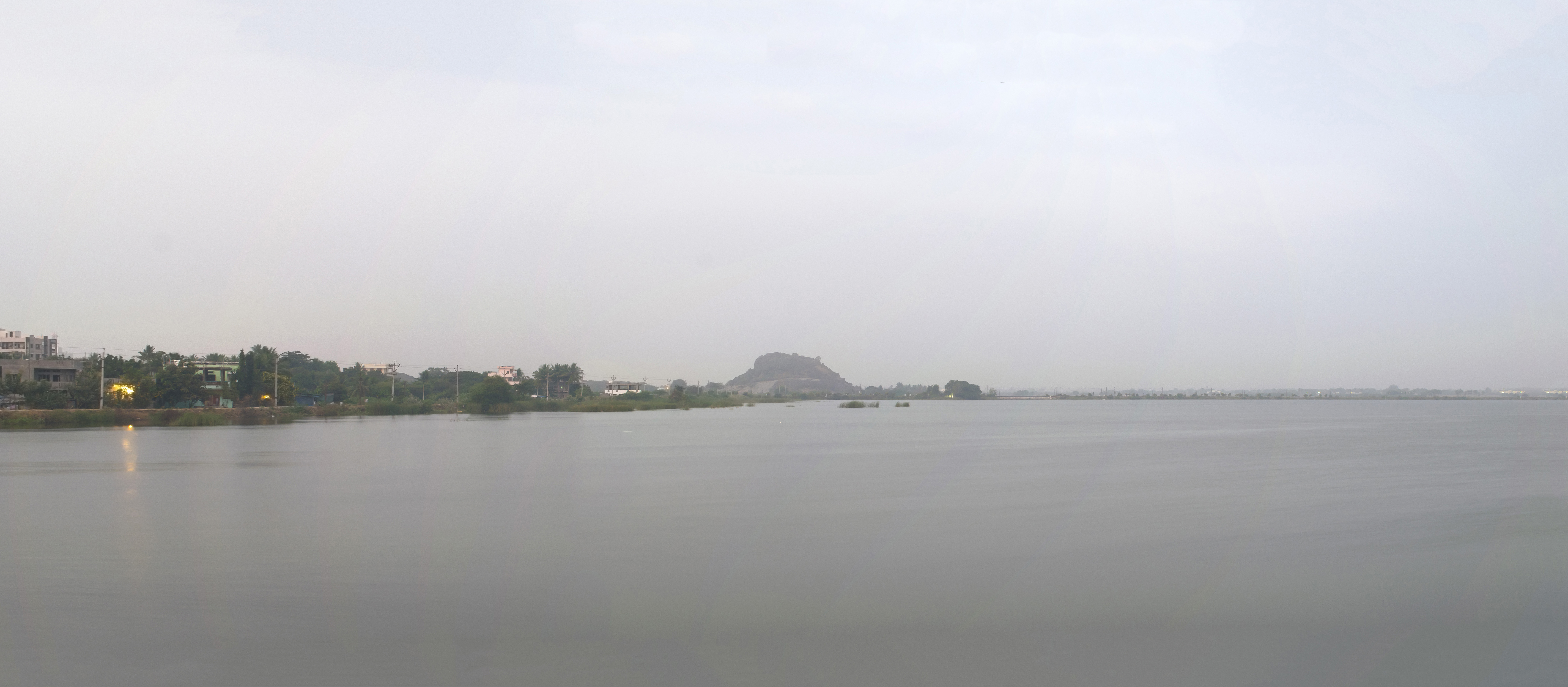 A panoramic view of Waddepally lake in Warangal